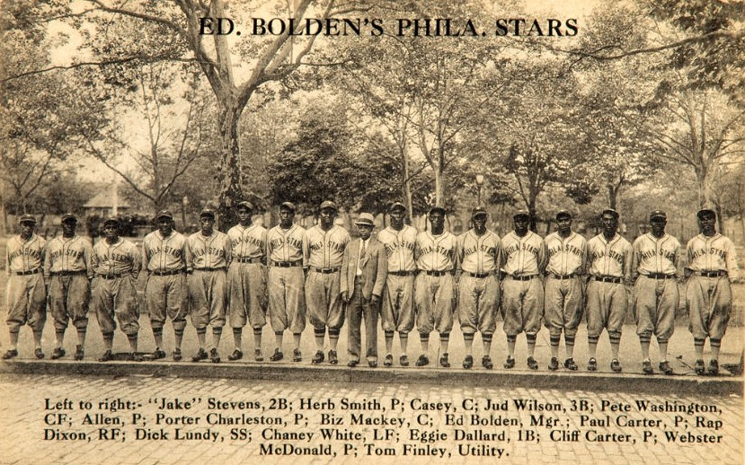 Sepia tone postcard of Philadelphia Stars baseball team, circa 1938